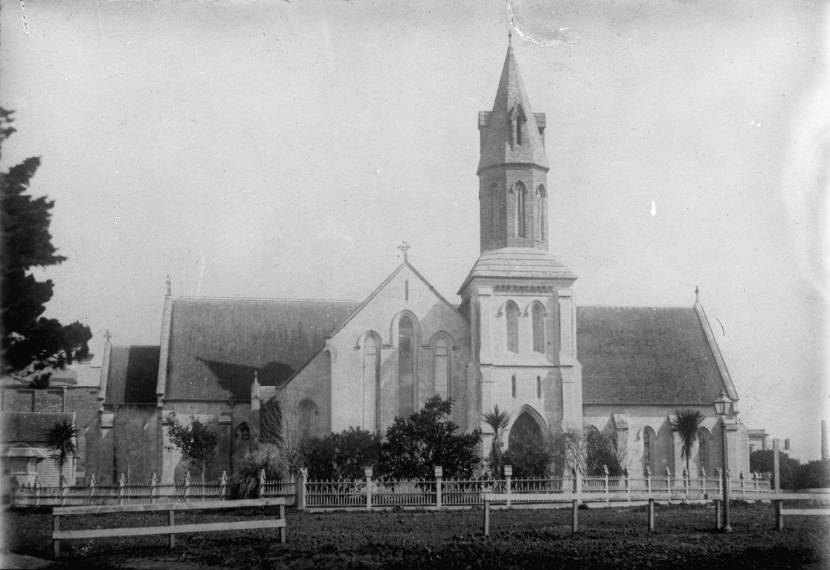 The original St Paul's building on Emily Place, which was demolished in 1885, photographed by James D Richardson. Sir George Grey Special Collections, Auckland Libraries, 4-RIC373